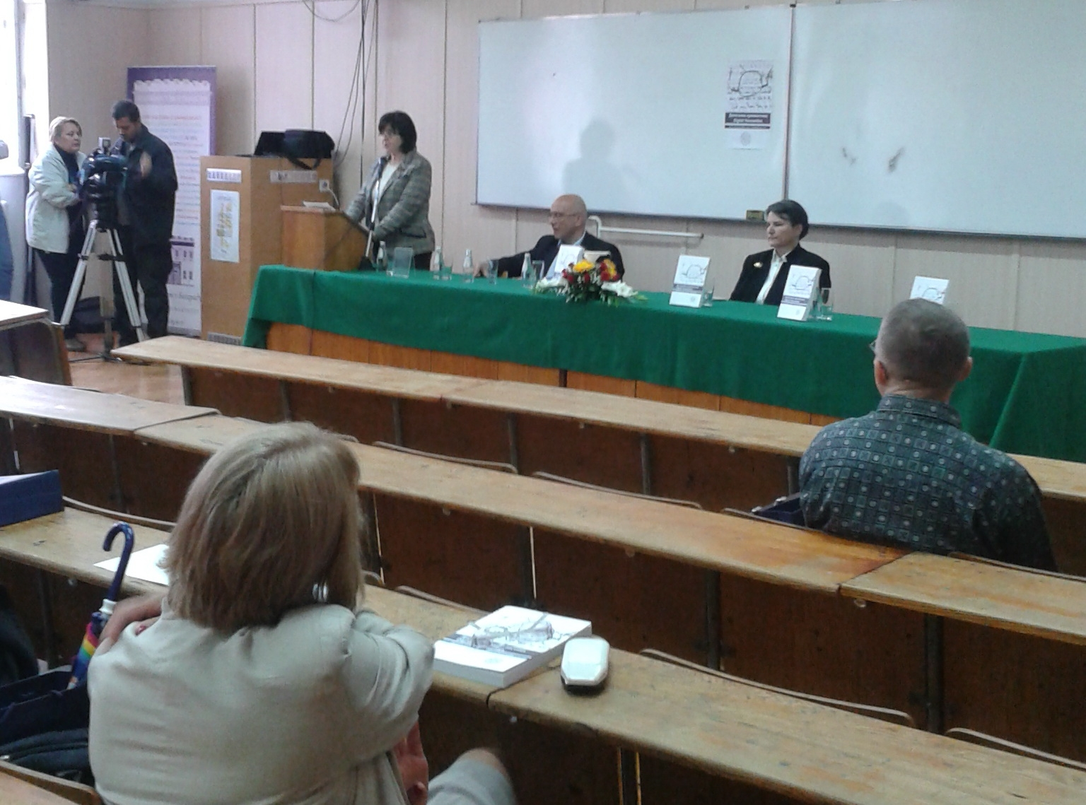 Conference "Digital Humanities" at the Faculty of Philology, University of Belgrade, 22-26 September, 2015, Belgrade